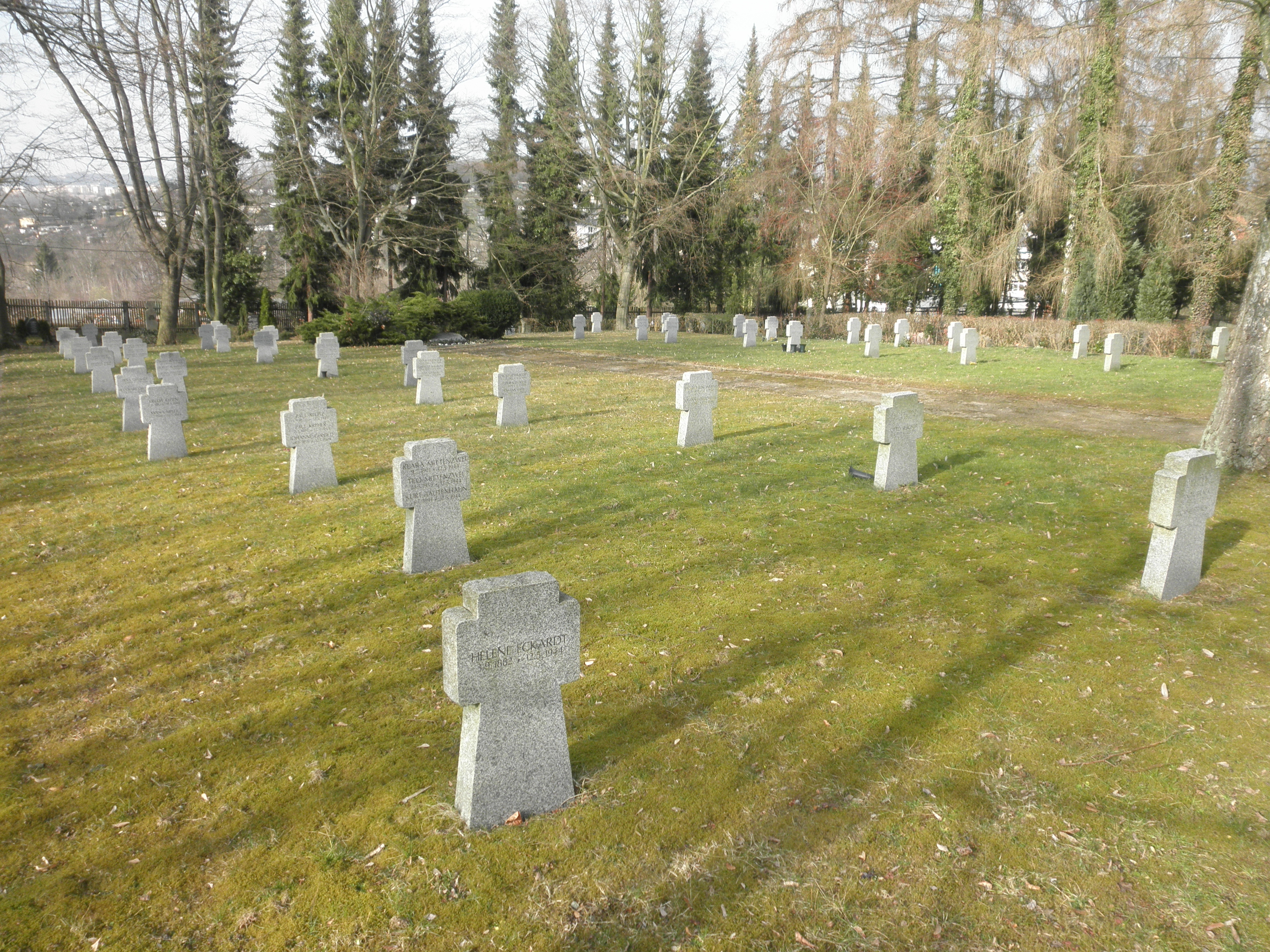 Graves of bombing victims in Gera in Thuringia